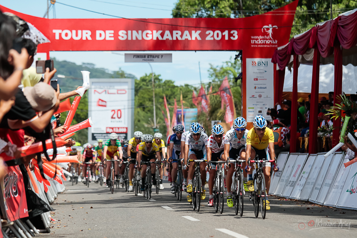 Tour de Singkarak 2013 in Padang, Indonesia.